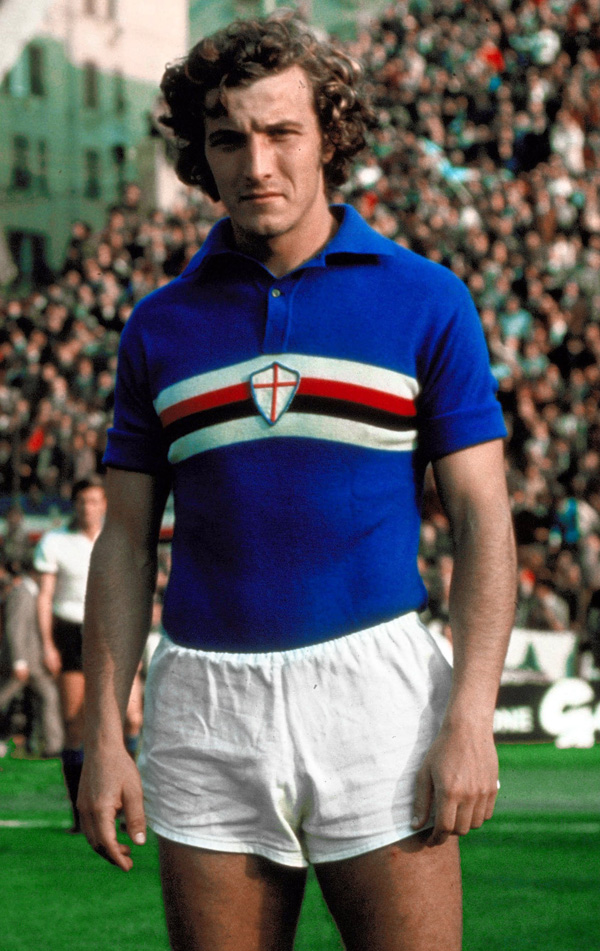 Italian footballer Marcello Lippi with U.C. Sampdoria in the 1st half of the 1970s, posing inside the Luigi Ferraris Stadium in Genova.